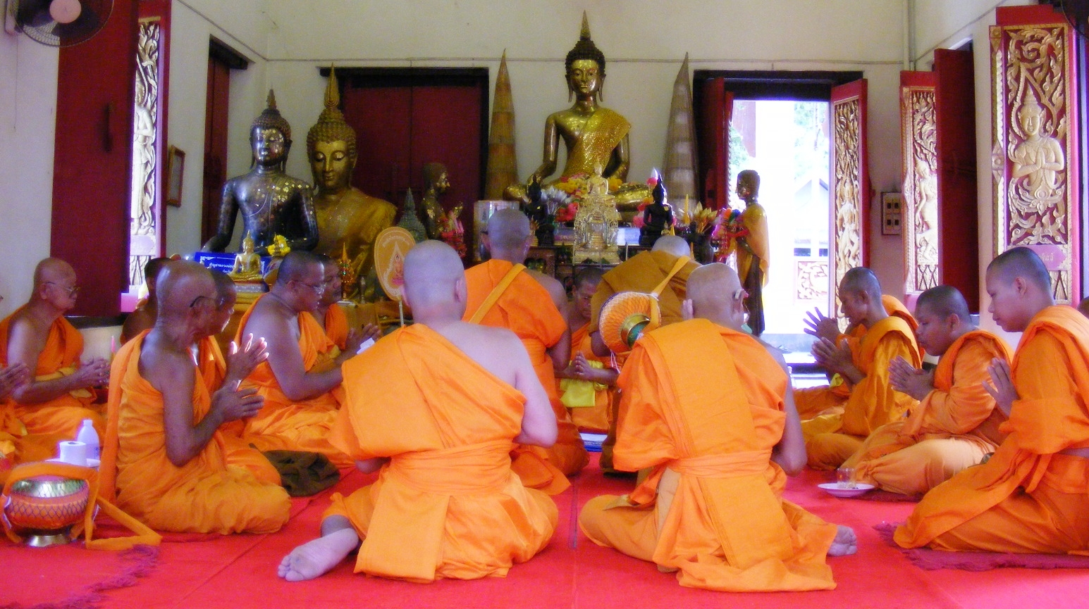 Buddhist monk in Buddhist church on Uposatha Day Location: Wat Khung Taphao Ban Khung Taphao, Khung Taphao subdistrict, Mueang Uttaradit, Uttaradit Province, Thailand.